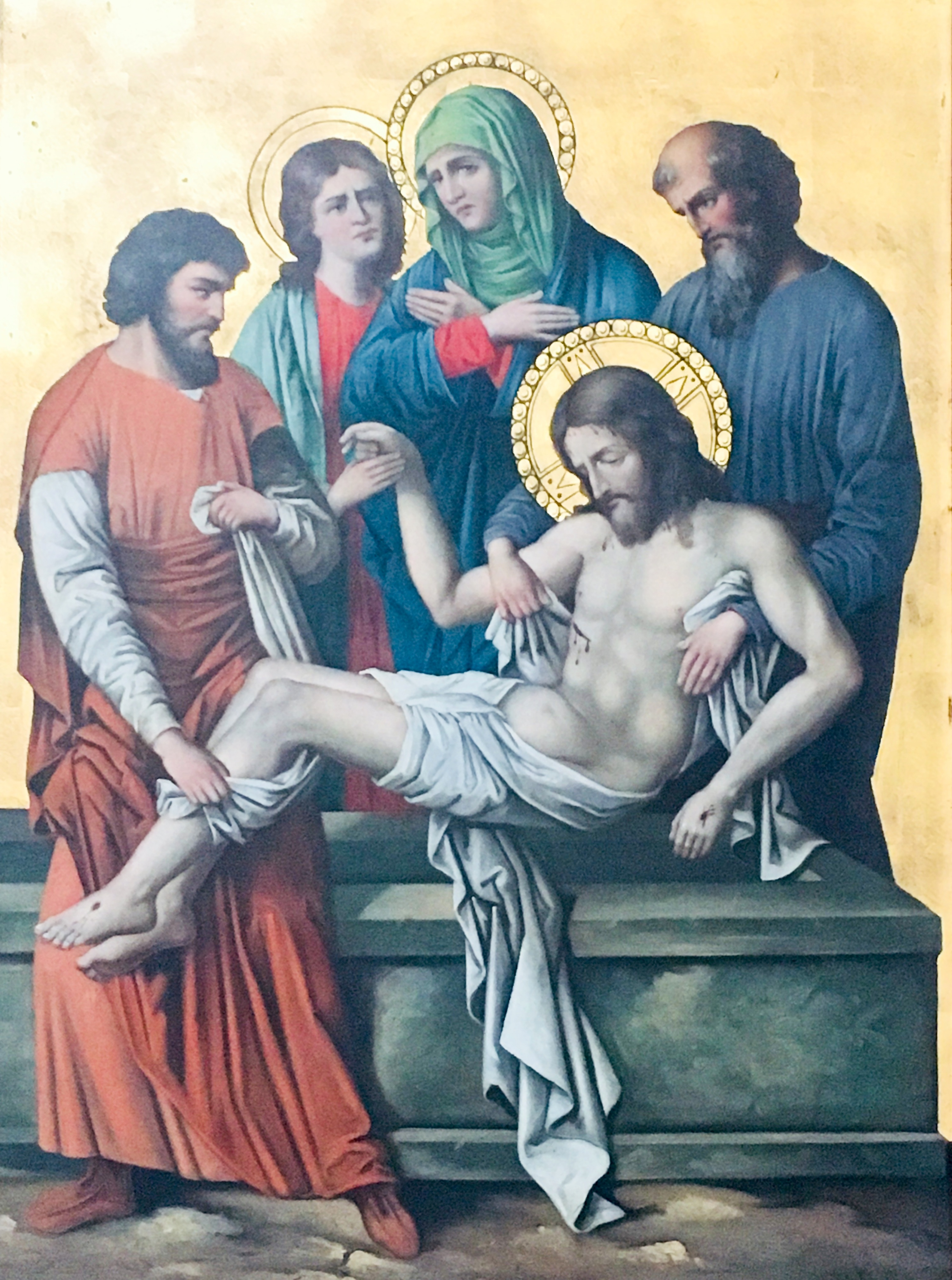 Station of the Cross, St. Gereon, Nackenheim (Germany), 19th century, pre-Raffaelite